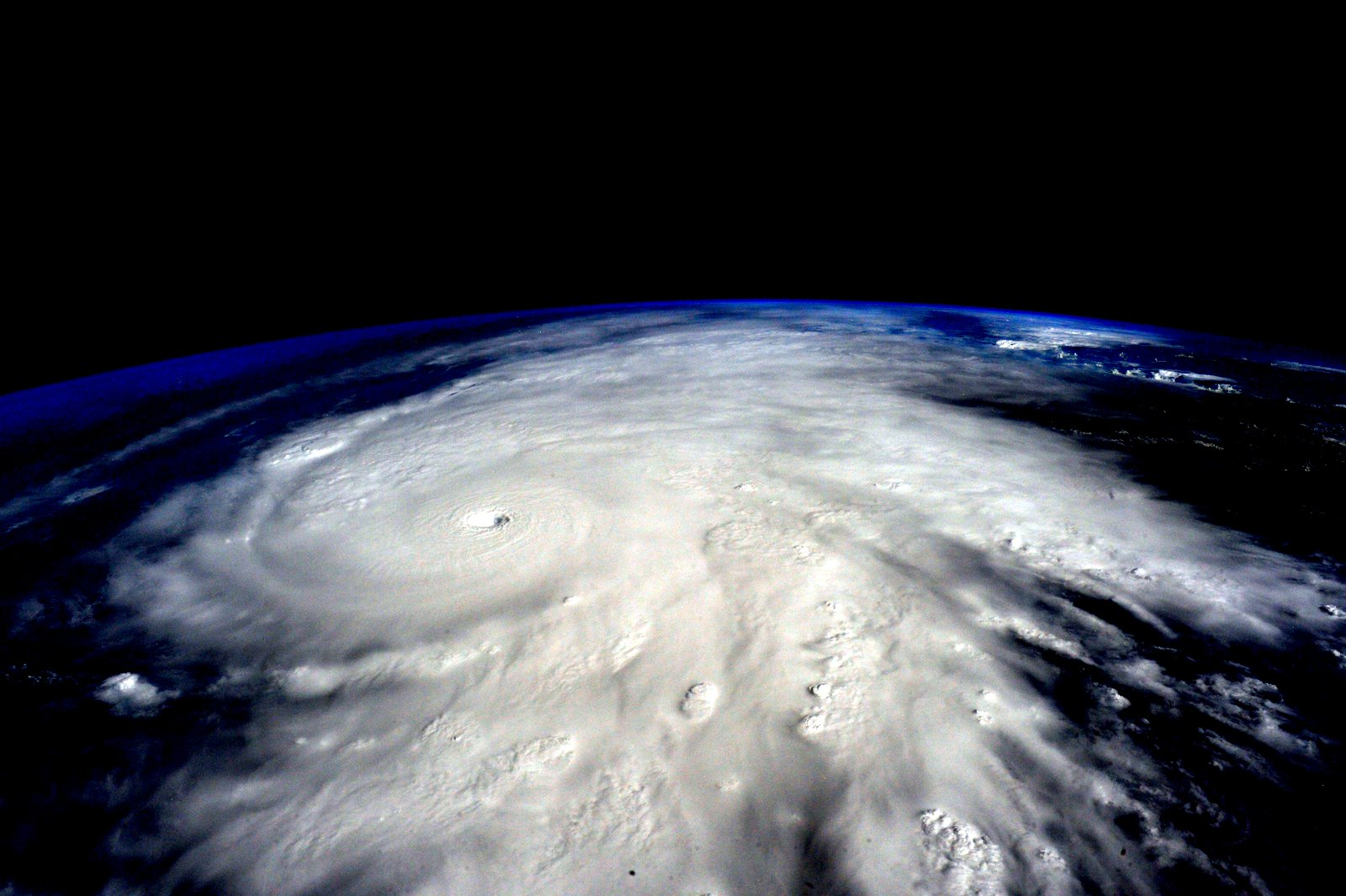 Astronaut Scott Kelly posted this photo of the Hurricane Patricia taken from the International Space Station to Twitter on Oct. 23, 2015 with the caption, "Hurricane #Patricia approaches #Mexico. It's massive. Be careful! #YearInSpace!".